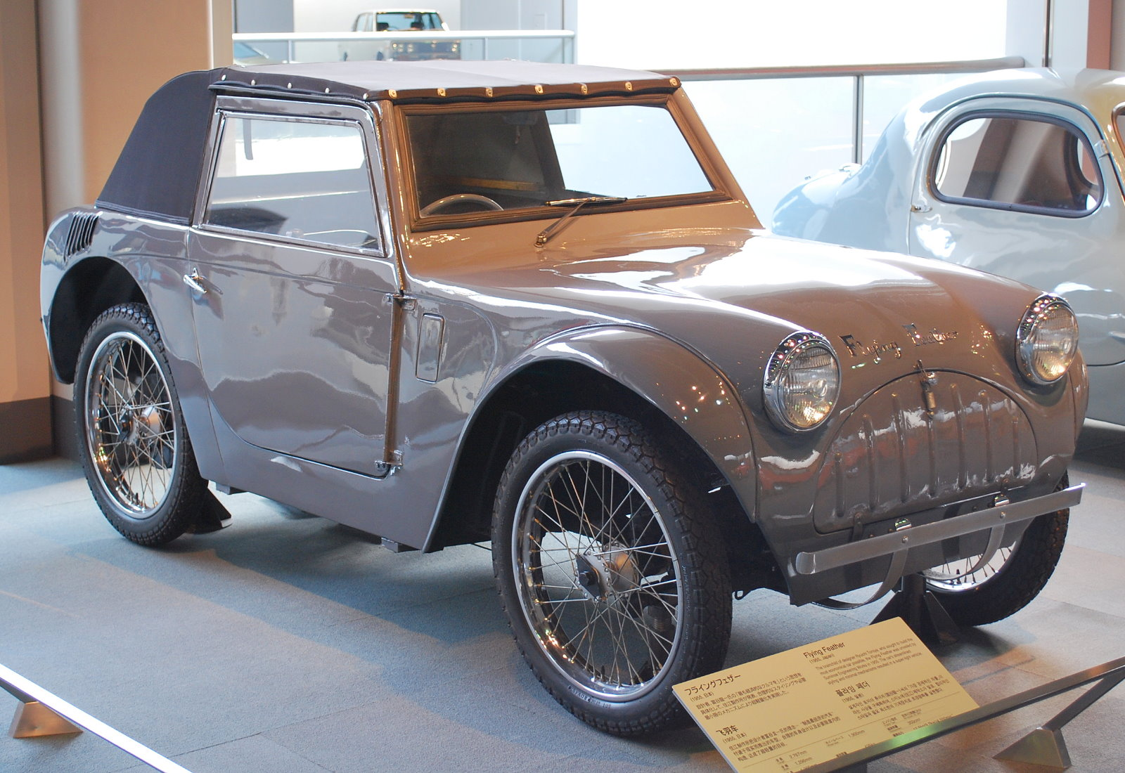 Flying_Feather (manufactured by Suminoe Engineering) (1955/3 - 1956)